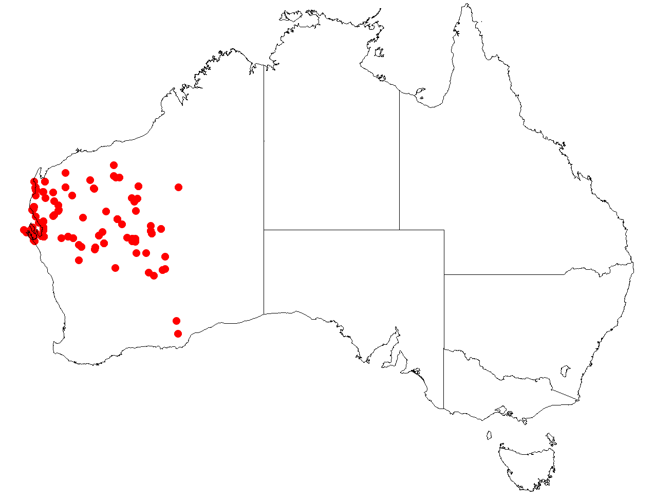 Lawrencia densiflora occurrence records downloaded from Australasian Virtual Herbarium, on 22 May 2018